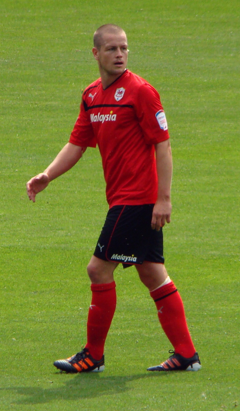 Heiðar Helguson wearing Cardiff City Football Club's new red home colours, in a pre-season game against Newcastle United on 11 August 2012.